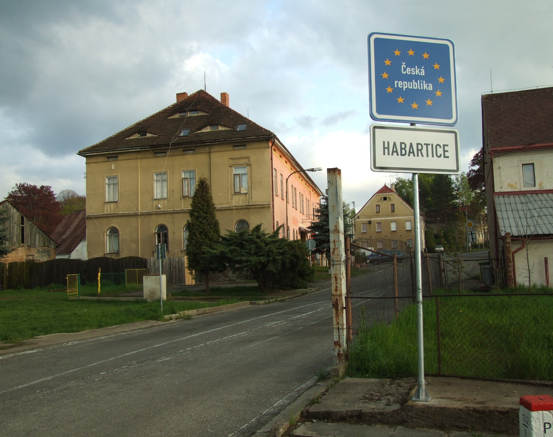 the village of Habartice, view on the pub (a 17th century building of the former village reeves)